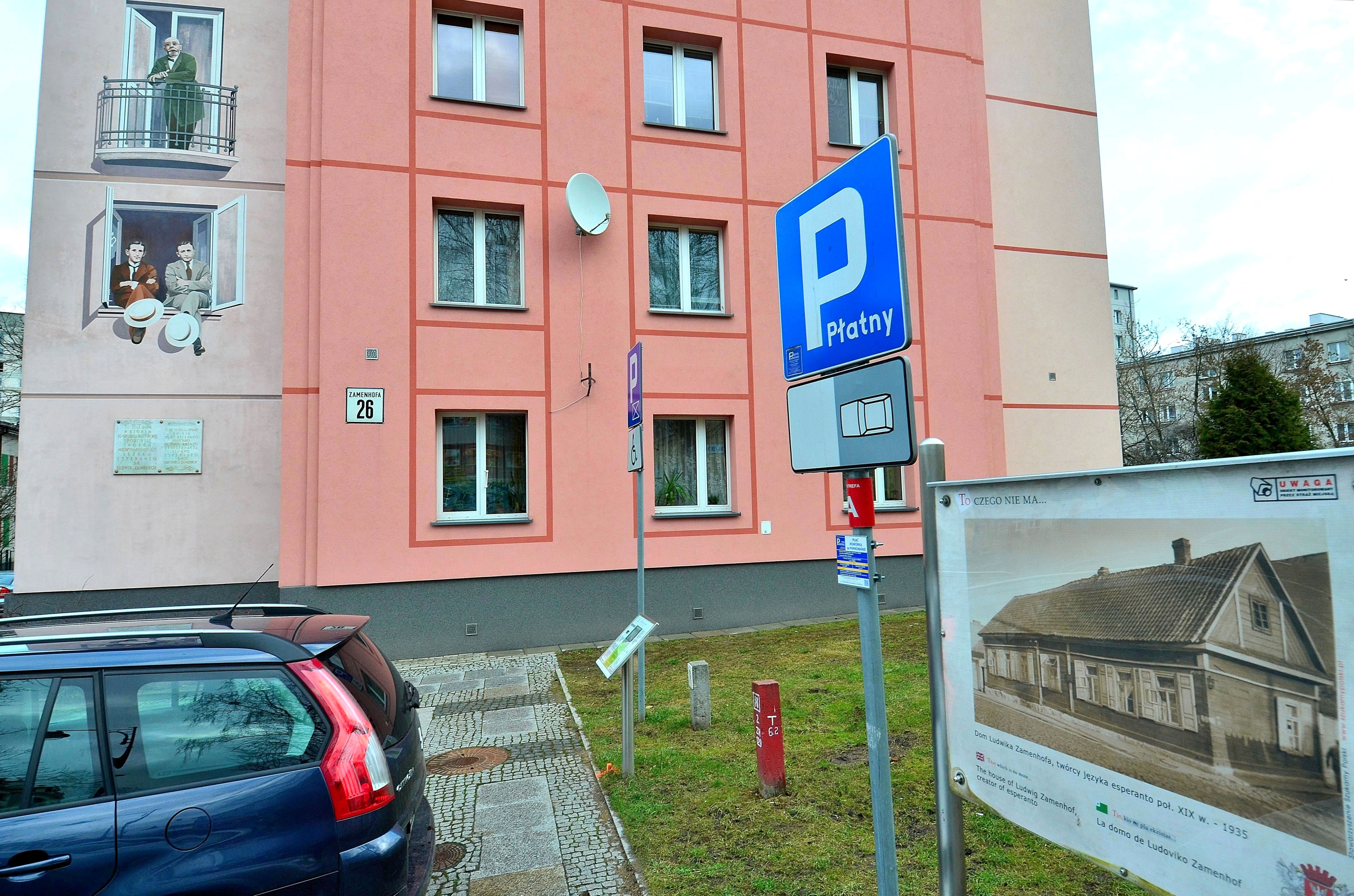 Site of fomer 6 Zielone Street in Białystok, where the house (pictured) in which Ludwik Zamenhof was born in 1856 stood